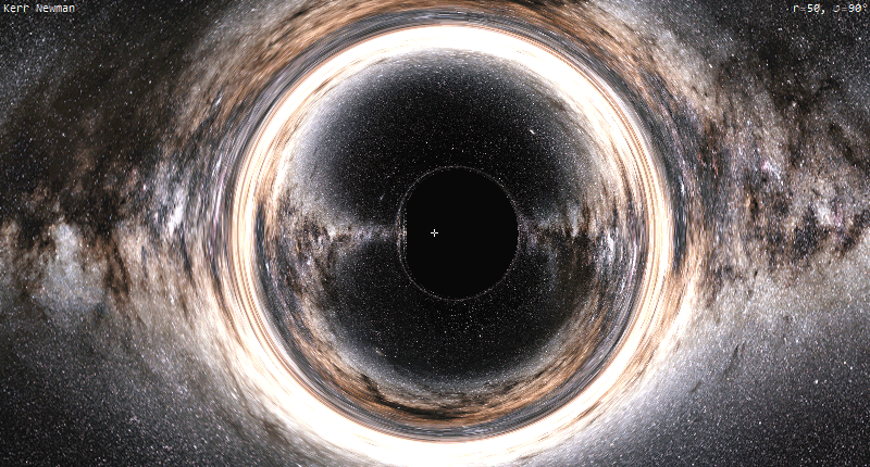 Extremal Kerr-Newman black hole with spin a/M=√½ and charge Q/M=√½, in natural units of G=K=c=1. Therefore a²+Q²=M². The observer is at r=50M and views the black hole from the equatorial plane (edge on). FOV: 77.4°×38.7°. The equations that were used to raytrace the image can be found here.